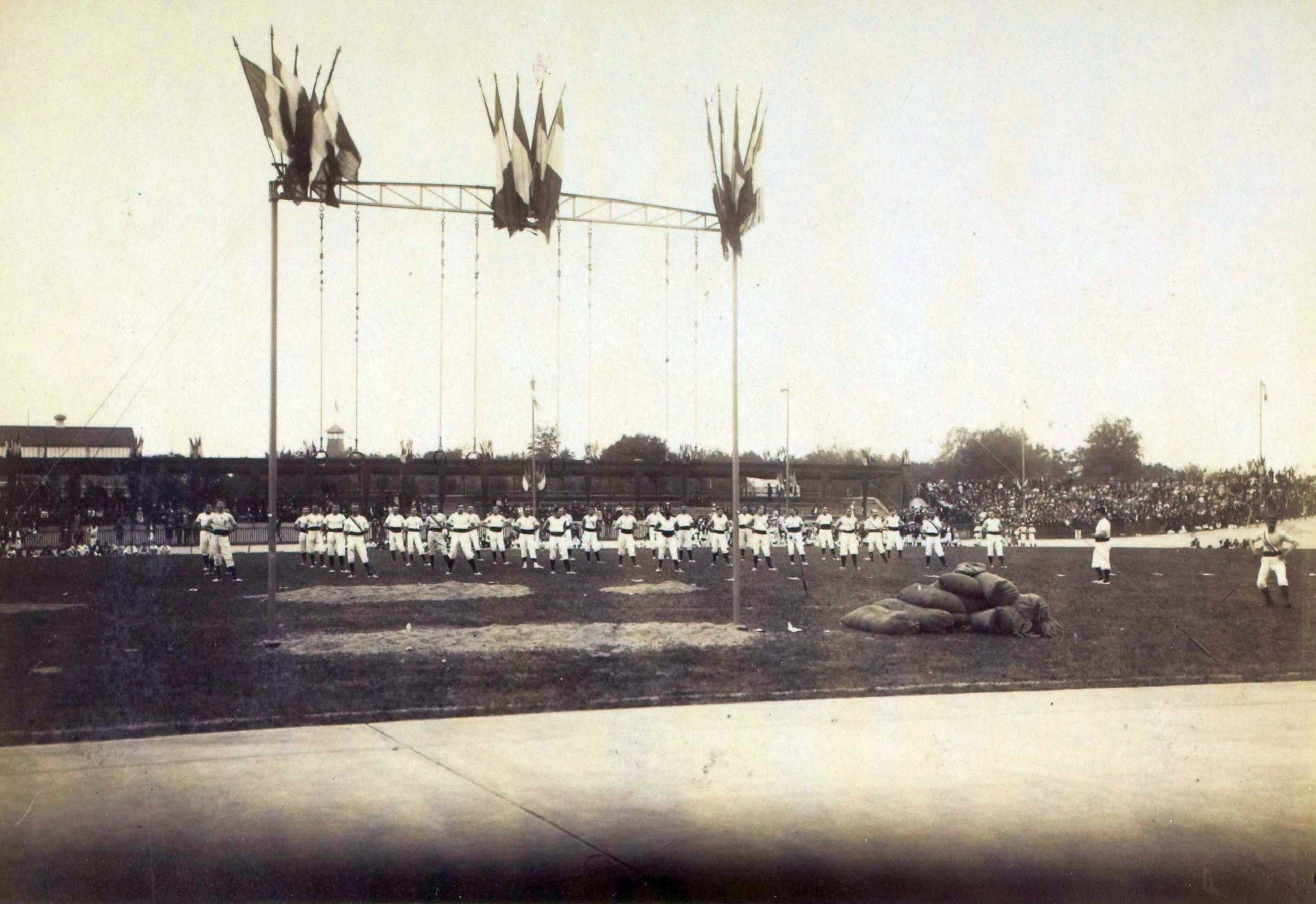 [Collection Jules Beau. Photographie sportive] : T. 12. Années 1899 et 1900 / Jules Beau : F. 11. [ XVIIIe Fête - Concours de gymnastique, vélodrome municipal de Vincennes]; le concours de gymnasqique des JO 1900, au vélodrome municipal de Vincennes - p.25